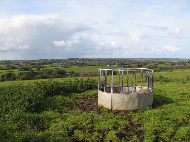 Feeding station A view from the B5420 near Penmynydd showing the sudden drop of the countryside along the line of the Berw Fault. This geological feature is the boundary of one of the Pre-Cambrian terranes of Anglesey. The predominantly flat nature of central Anglesey is also well-shown.